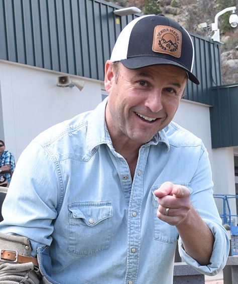 CHEYENNE MOUNTAIN AIR FORCE STATION, Colo. – Actor and comedian Steve Lemme, a member of the comedy troupe Broken Lizard and star of the film “Super Troopers” participates in a Military Working Dog demonstration at the Mountain on May 6, 2016. The 21st Security Forces educated the actors on the capabilities of the MWD program. Lemme and comedy partner Kevin Heffernan visited and toured the facility, and signed autographs for CMAFS Airmen. The visit was part of the ongoing CMAFS 50th Anniversary celebration.